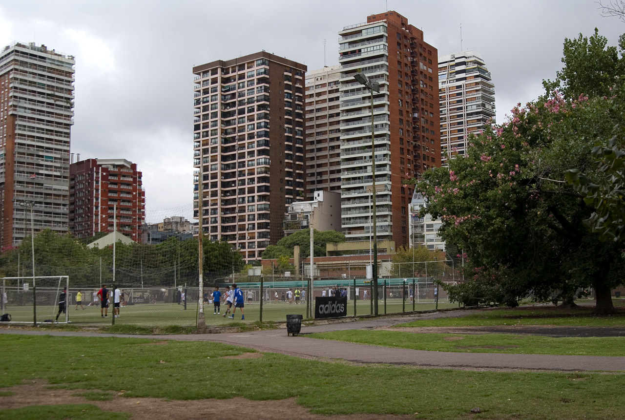 Las Heras Park and surroundings, Buenos Aires. Mario Álvarez's Torre de las Américas, Forum Plaza, and Art Tower (1991) are at right.